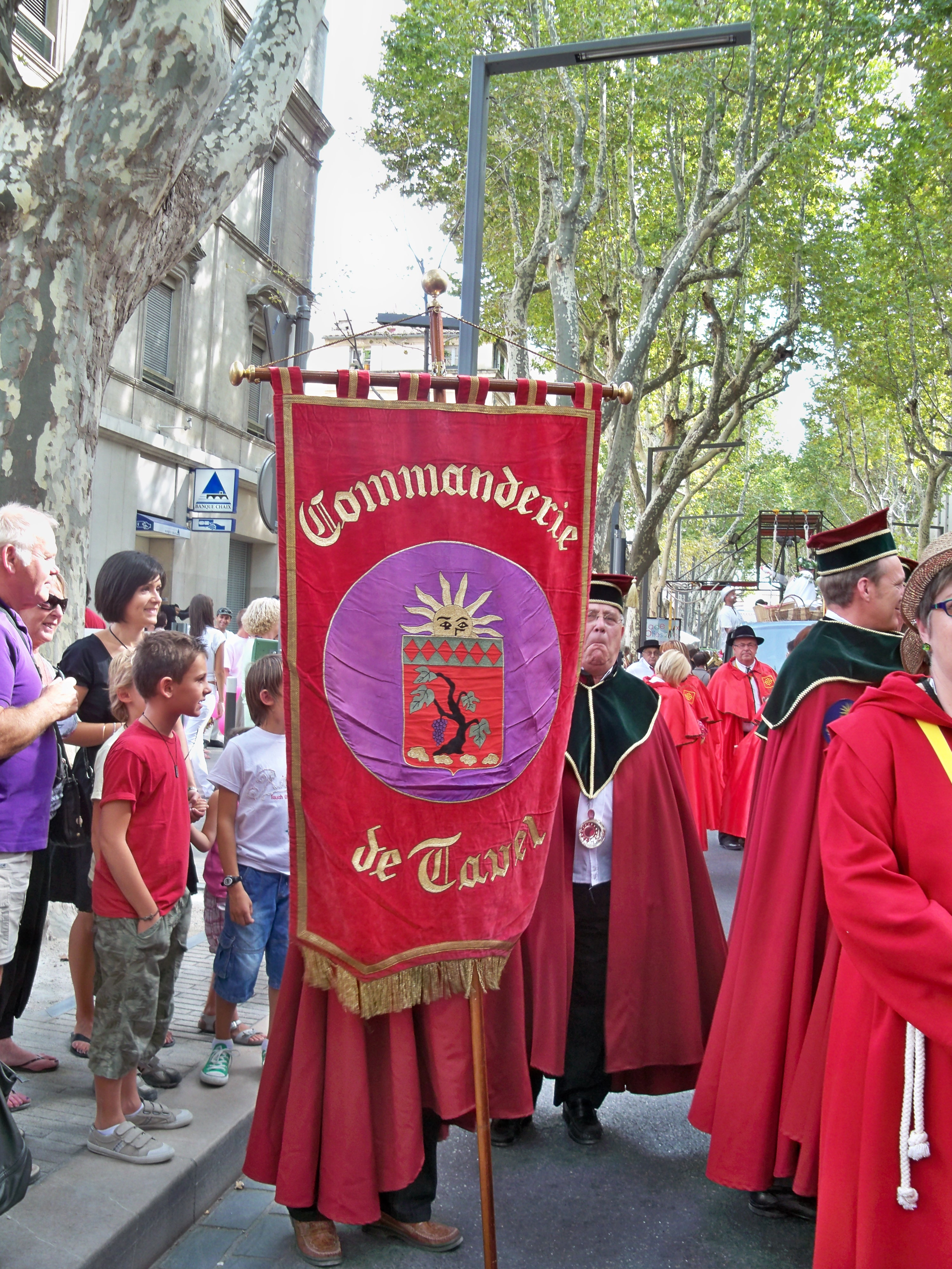 Banner of Commanderie de Tavel (Gard, France)